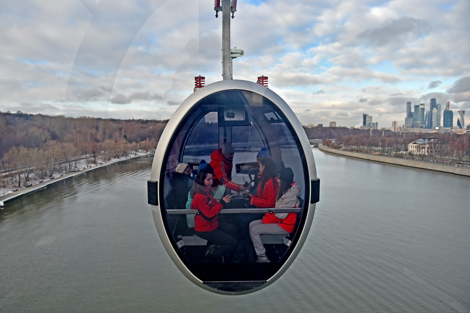 Moscow cable car